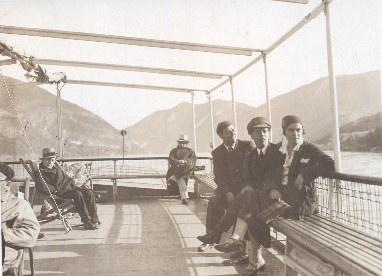 Venedikt Bobchevski and Gusla Choir "Saturnus" steamboat, 12.08.1933.